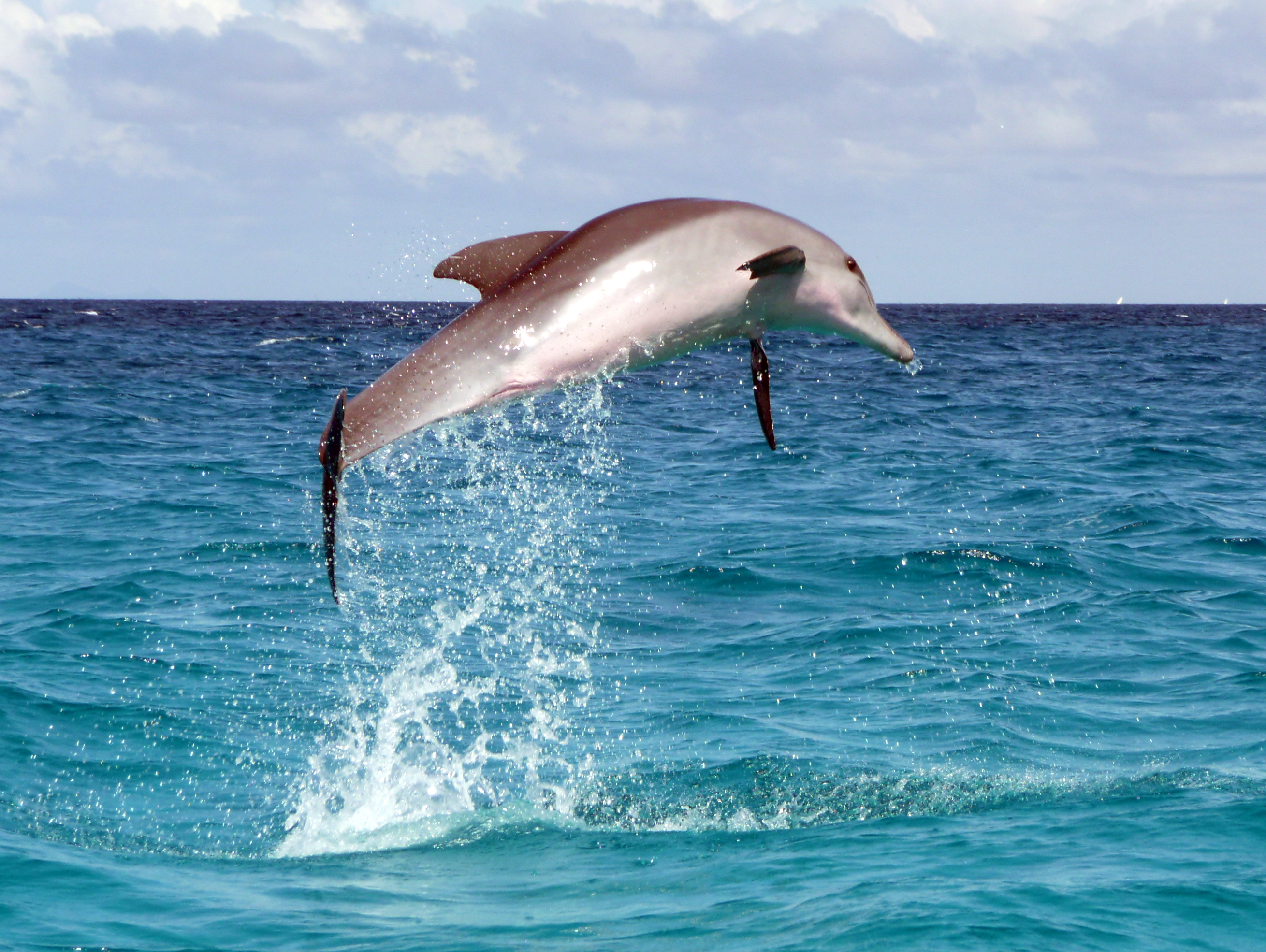 A juvenile Pantropical spotted dolphin leaps out of the water in the Indian Ocean, off the coast of Zanzibar, Tanzania.